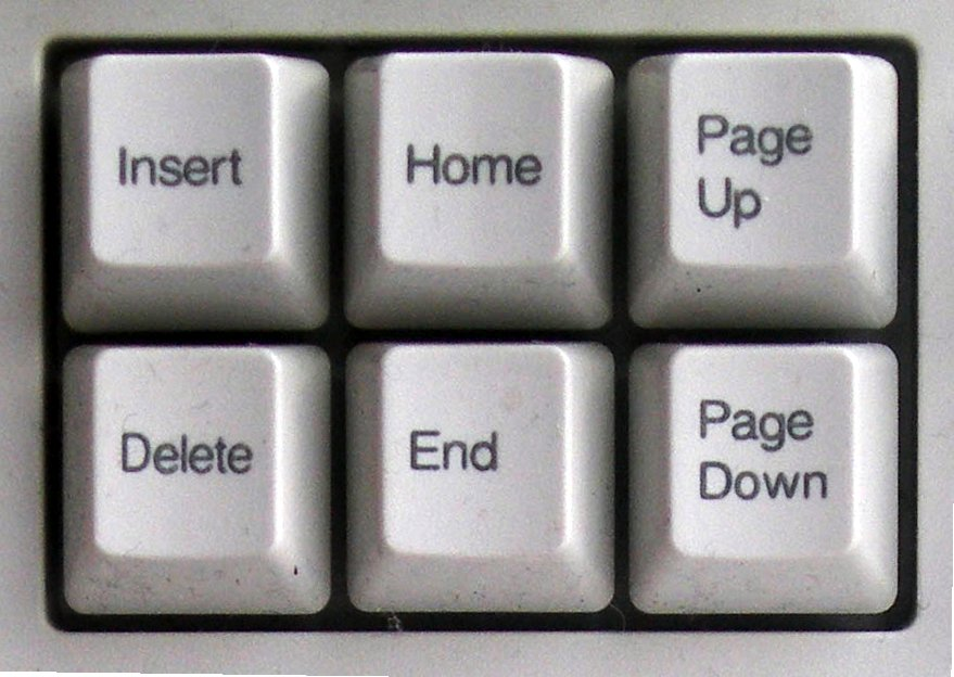 As requested, a keyboard pad containing Insert, Home, Page Up, Delete, End and Page Down. Taken by me, Nach0king, for Michaelas10. It's from a Dreamcast keyboard, by the way.